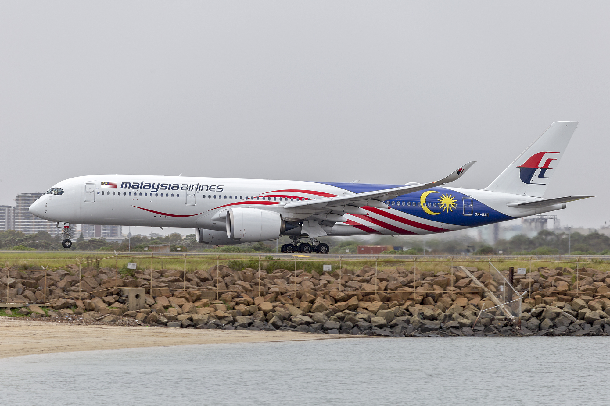 Malaysia Airlines (9M-MAG) Airbus A350-941 departing Sydney Airport